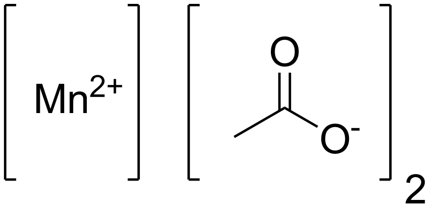 chemical structure of manganese acetate